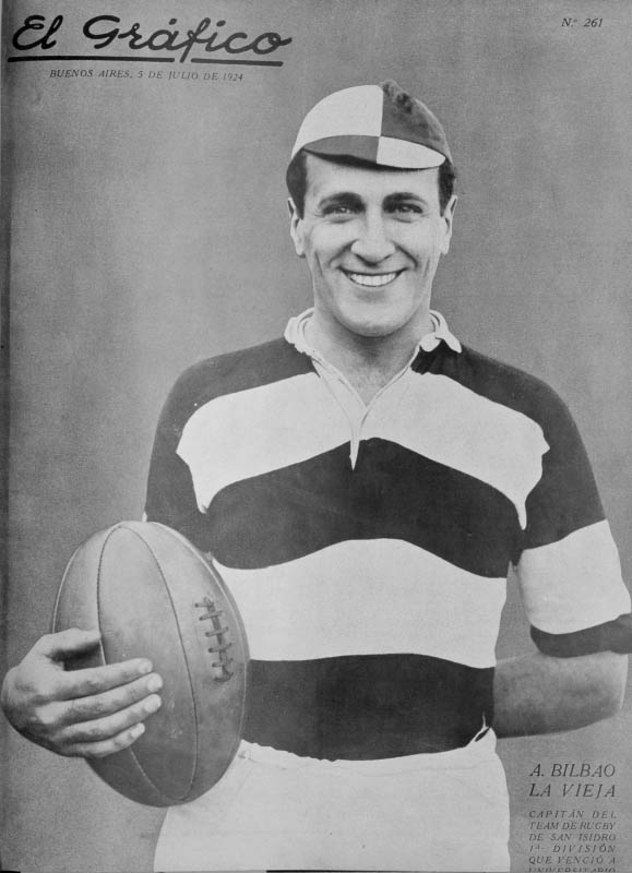 Antonio Bilbao La Vieja, former rugby union team Club Atlético San Isidro captain.